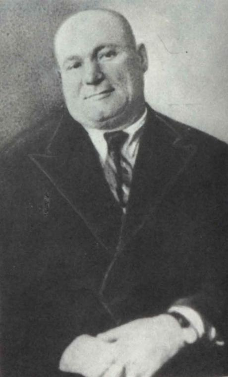 Lev Zadov, anarchist communist, metalworker and organiser of the Makhnovist intelligence corps.